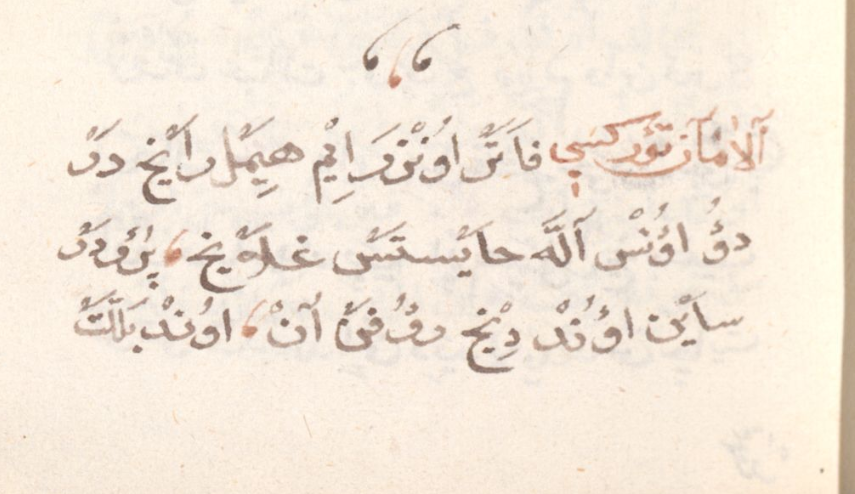 Initial lines of Martin Luther's hymn 'Vater unser im Himmelreich' in an aljamiado song collection from Ottoman Europe of the late 16th century. Manuscript can be accessed at: (Austrian National Library).